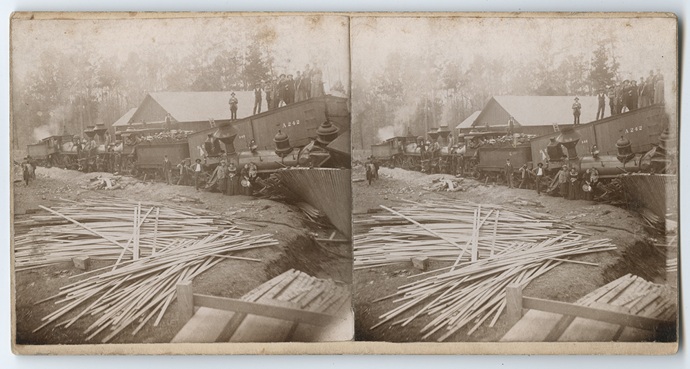 Title: Wreck on the Houston, Eastern, & Western Texas R. R. Alternative Title: [Wreck on the Houston, East and West Texas Railway] Creator: C. H. Harris, Artist Date: 1893 Series: 7: Stereographs/mode/exact Part Of: T. Jones III Texas photography collection/mode/exact Place: Lufkin, Angelina County, Texas Physical Description: 1 photographic print on stereo card: stereograph, Collodion printing-out paper print; 8.9 x 17.8 cm File: ag2008_0005_7_3_003_r_wreck.jpg Rights: Please cite DeGolyer Library, Southern Methodist University when using this file. A high-resolution version of this file may be obtained for a fee. For details see the web page. For other information, . For more information and to view the image in high resolution, View the